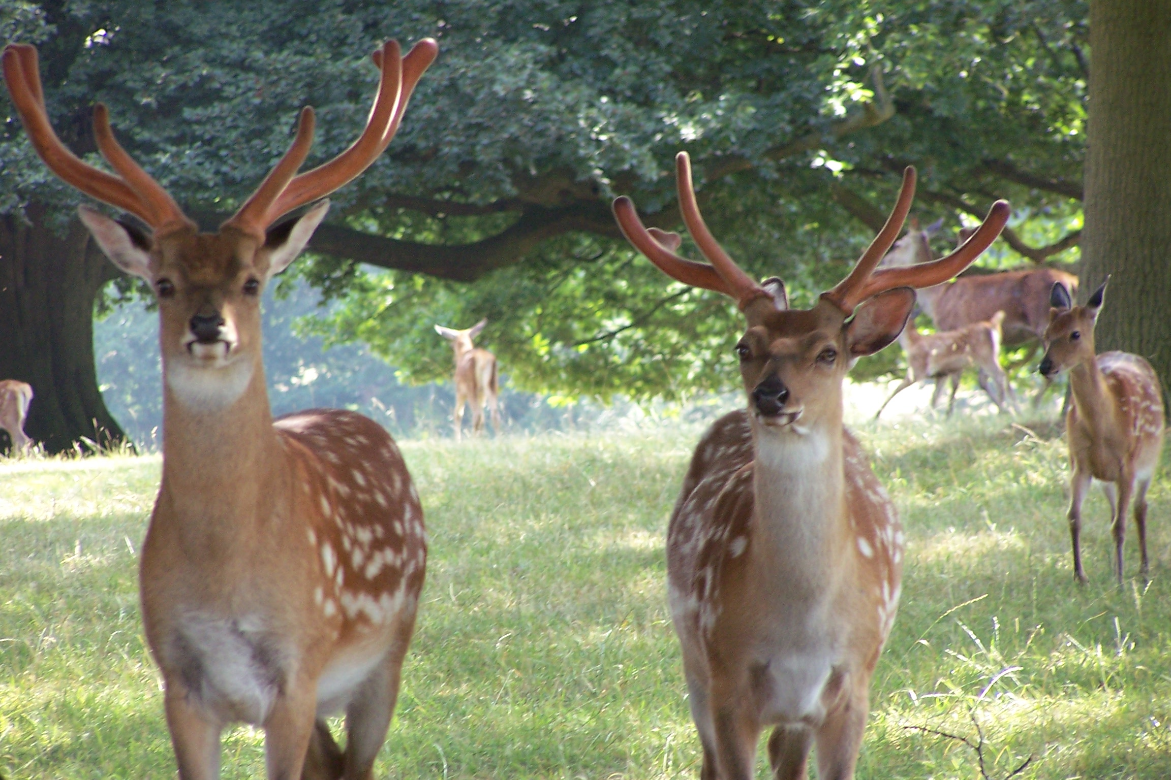 Deer on the grounds of Woburn Abbey